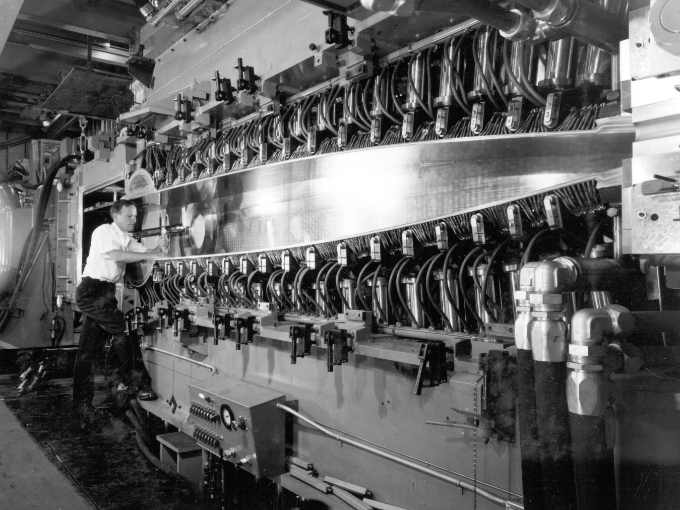 In September of 1959, JPL held a press conference to celebratethe opening of its new ,500,000 hypersonic wind tunnel, thethird wind tunnel built at JPL from 1947 to 1959. A JPL engineeris shown positioning a scale model of a missile in the tunnel's21 x 21 inch test section. The two horizontal stainless steelplates were flexible and could be moved by a system of hydraulicjacks seen above and below, to change the speed of the airflowand other variables. Testing time was to be used equally by ArmyOrdnance contractors, Air Force contractors, and the JPLAerodynamic Research Section. This NASA wind tunnel isespecially noteworthy, as JPL has mostly concentrated on astronautical research as opposed to aeronautical. This is aunique wind tunnel in that not only is it at JPL, but as DonaldBaals and William Corliss state in Wind Tunnels of NASA (NASASP-440), "the hypersonic facility was a particularly significantaddition to the existing NACA spectrum of tunnels. Covering therange from Mach 4 to Mach 11, with continuous-flow capability,it operated at pressures up to 715 psi and temperatures to 1350? F."